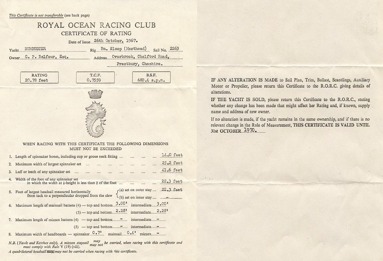 Royal Ocean Racing Club certificate for Rumbuster, part 1